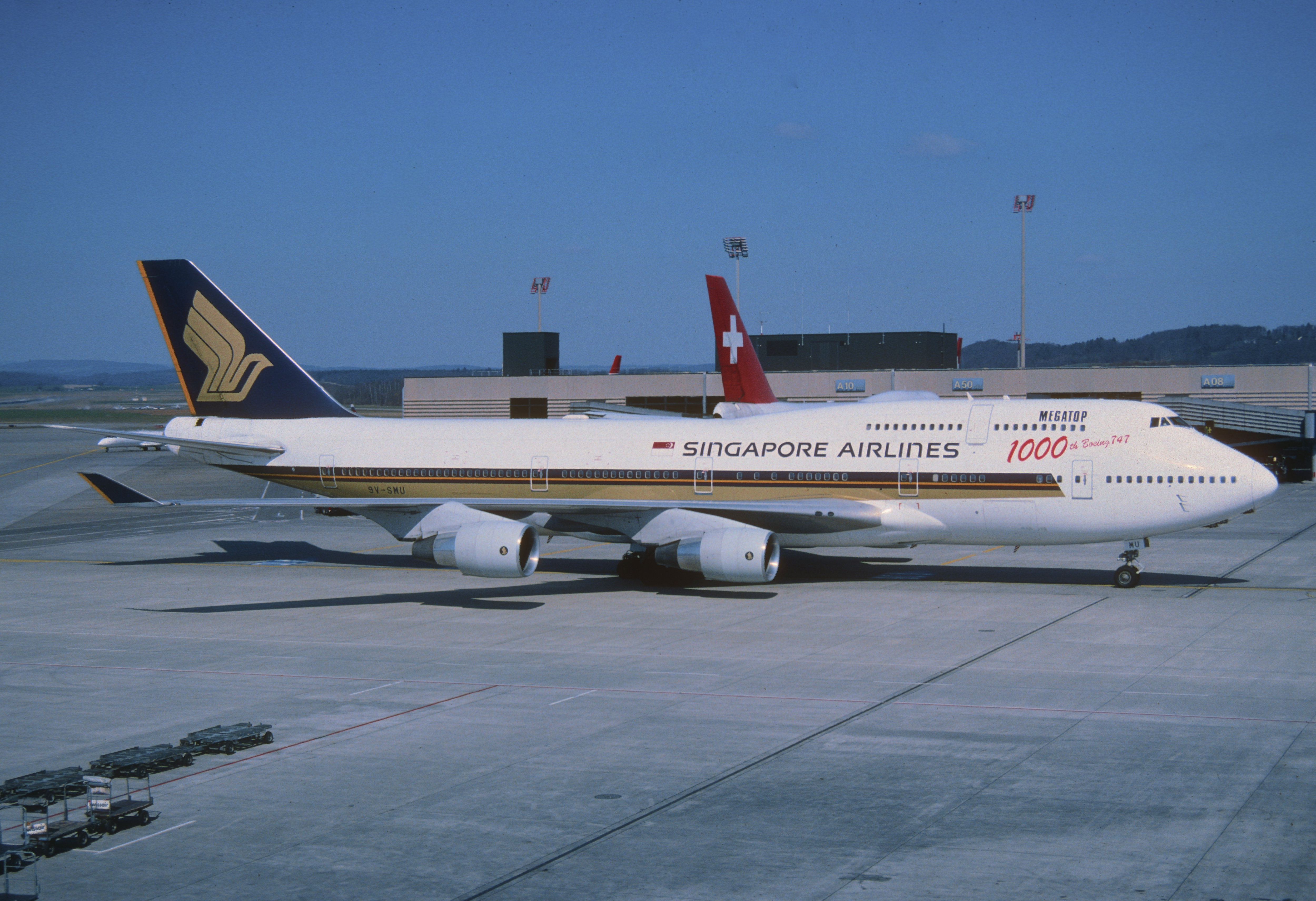 The thousandth 747, still a labelled 'Megatop' back then, taxiing on a beautiful spring day at Zürich in March 1998... This Boeing 747-412 took its first flight on September 29, 1993...(c/n 27068/ 1000) 13/10/1993 Singapore Airlines 9V-SMU Correct 20/01/2012 Southern Air N400SA